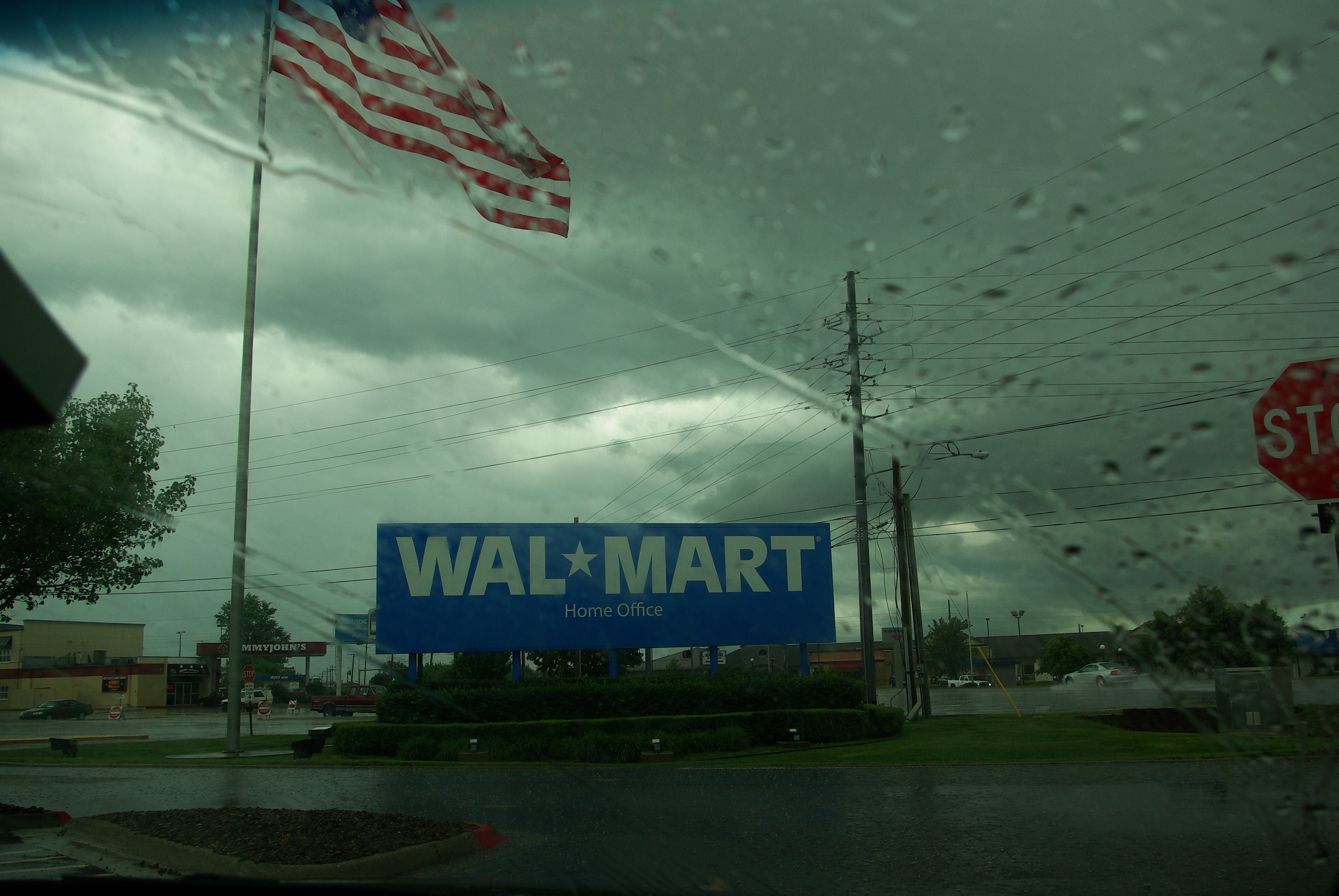 Walmart Home Office, the headquarters of Wal-Mart - Bentonville, Arkansas